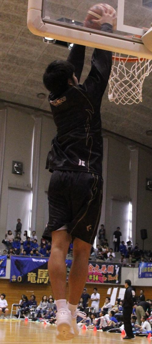 Ryosuke Shirahama